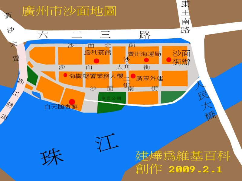 Samin map